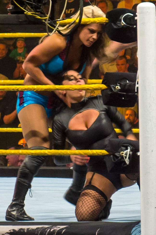 Kaitlyn wrestling Maxine during a Smackdown/NXT event in 2012.